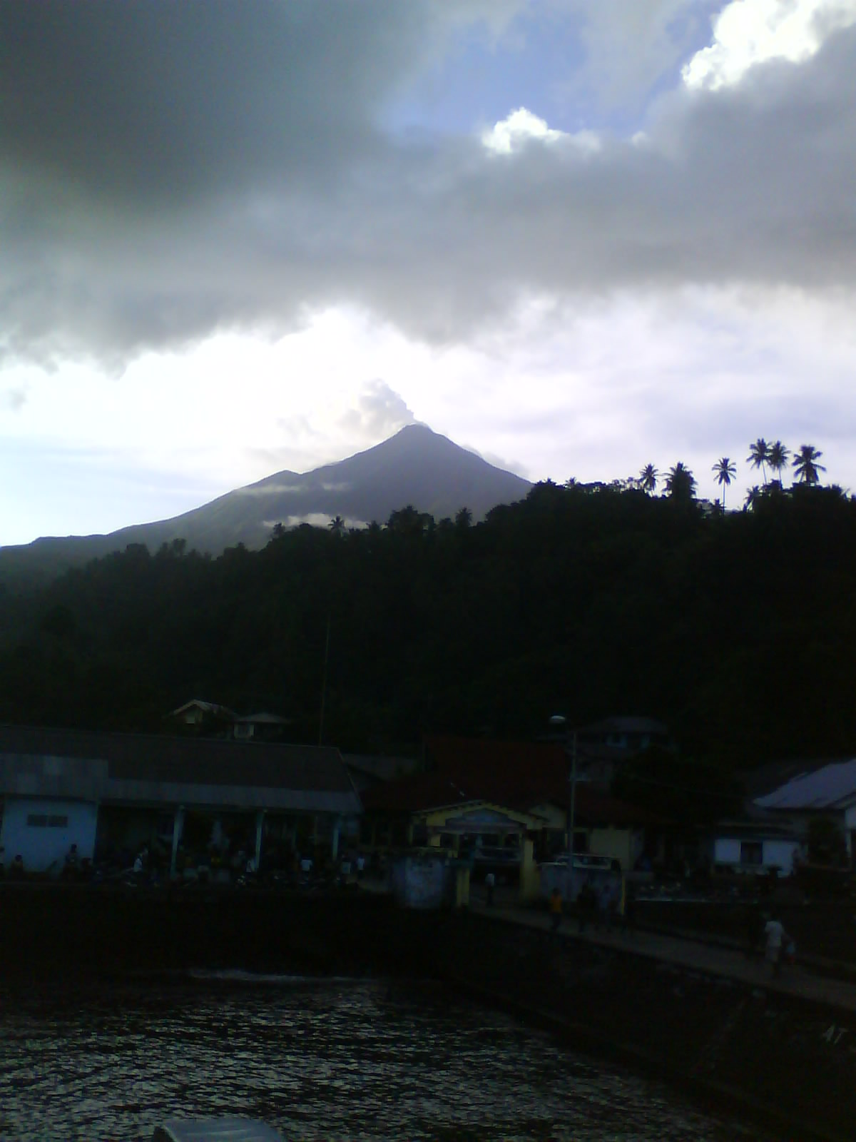 Karangetang, Siau, North Sulawesi, Indonesia (captured from Ulu Siau Harbour)